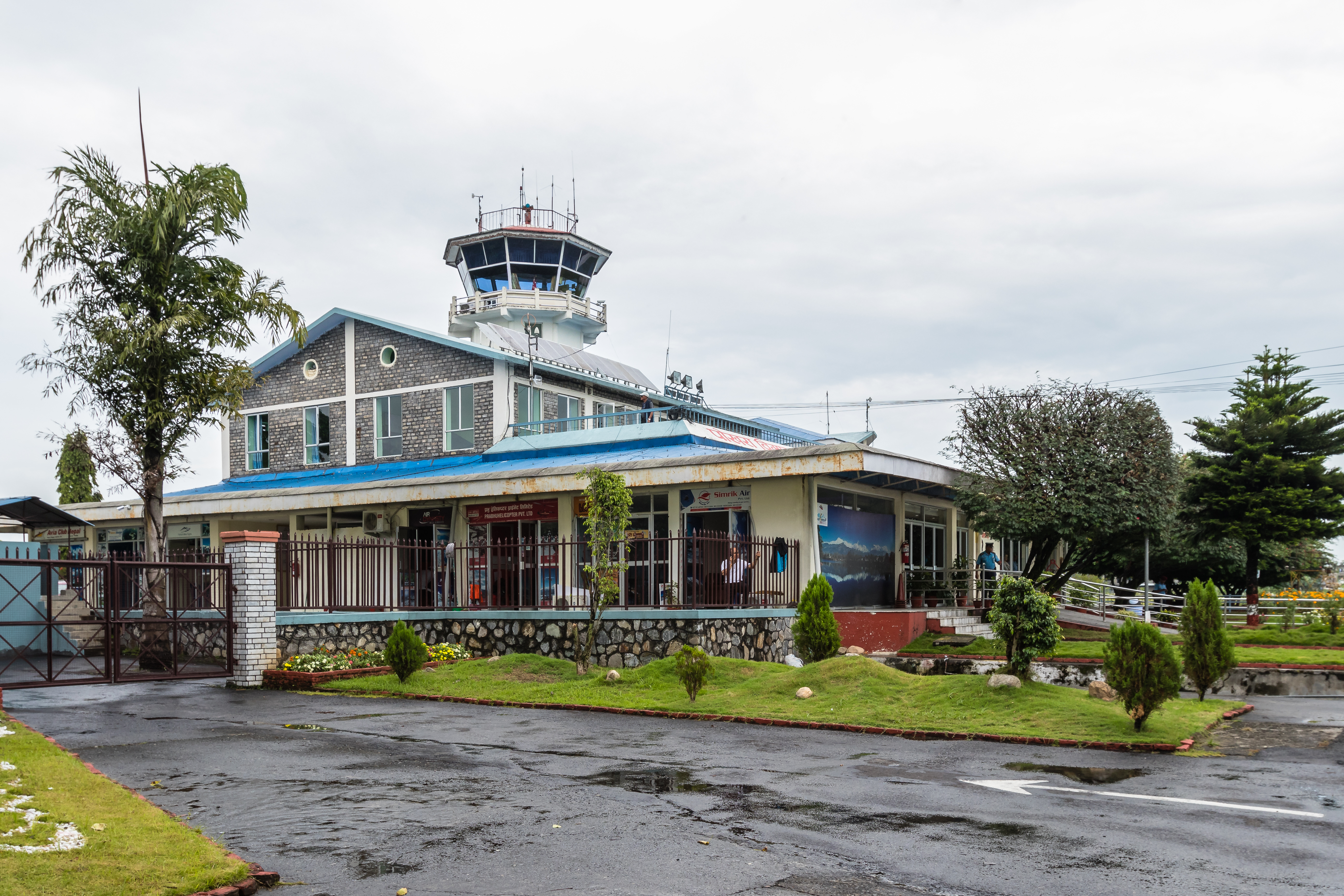 Pokhara Airport (IATA: PKR, ICAO: VNPK), is a regional airport serving Pokhara in Nepal. The airport was established on 4 July 1958 and is operated by the Civil Aviation Authority of Nepal. It offers regular connections to Kathmandu and Jomsom; and seasonal connections to Manang.